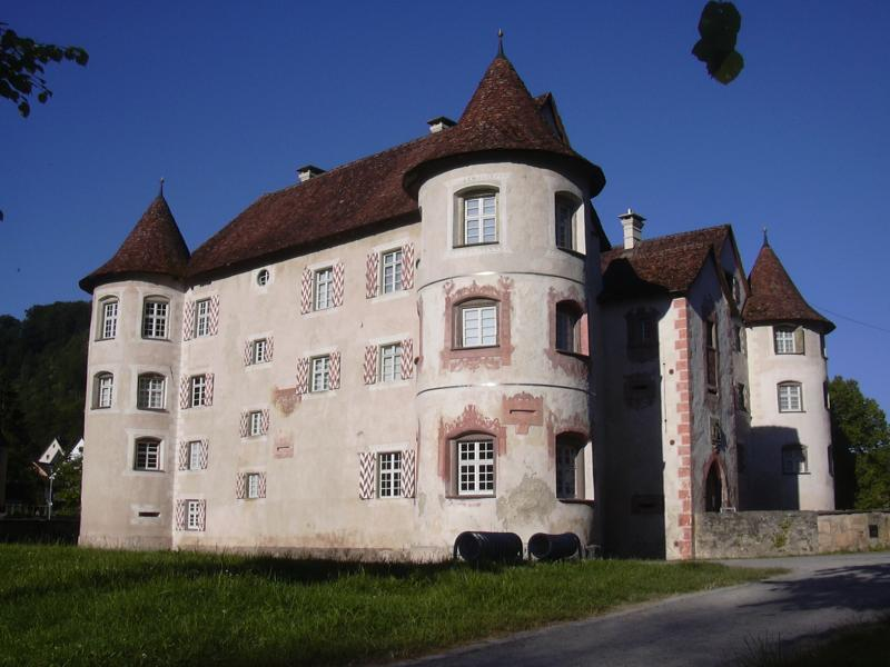 The castle of Glatt near Sulz am Neckar, Germany